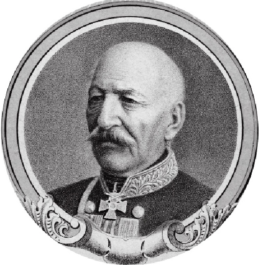 Mamuka Orbeliani, 1800-1871.